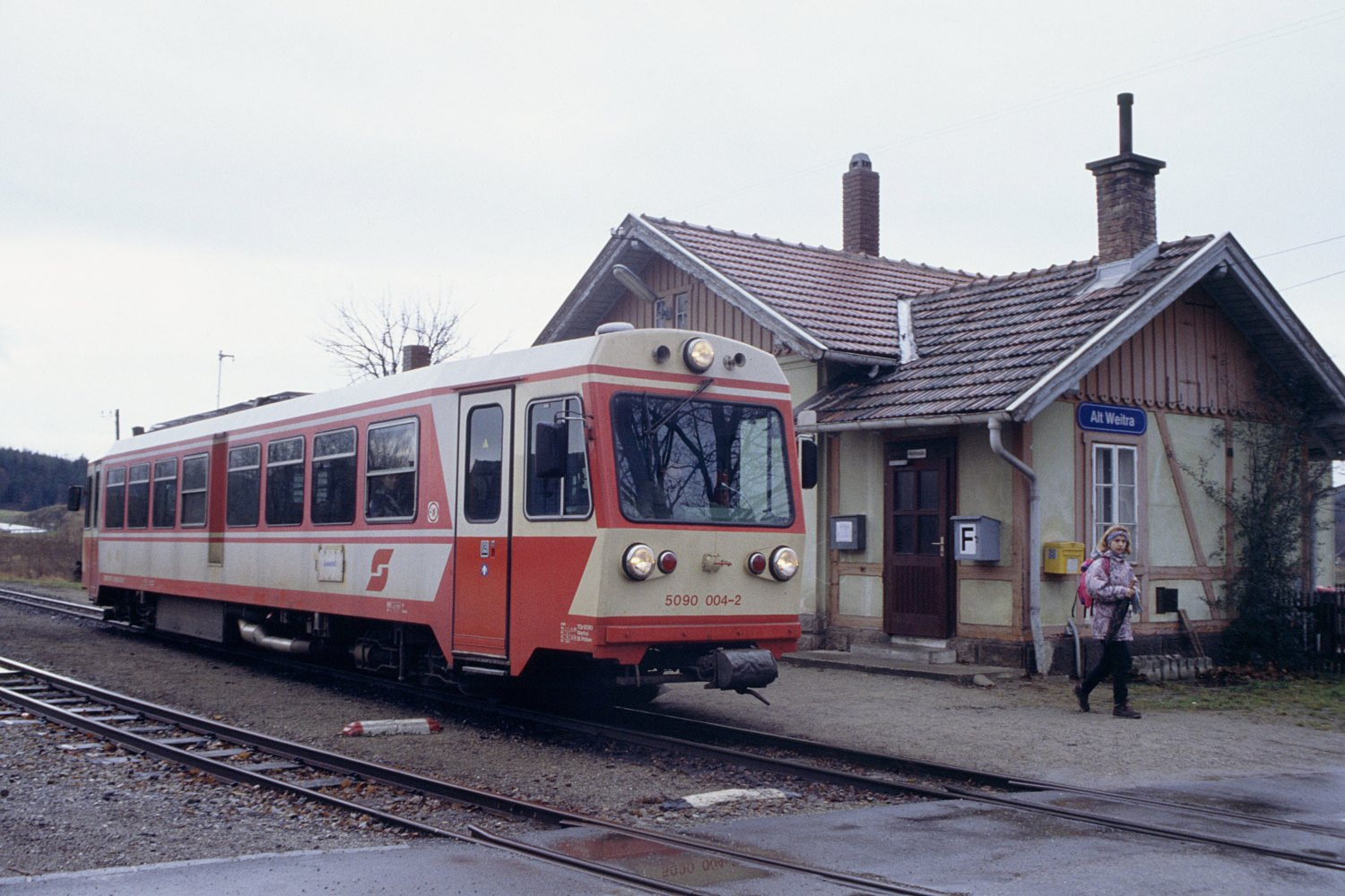 ÖBB Narrow gauge DMU 5090 004-2 in Alt Weitra station on the Waldviertel narrow gauge railways.